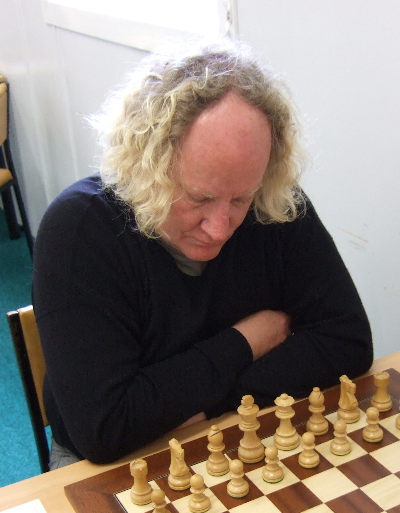 Darryl Johansen, Australian Chess Grandmaster at the 2009 George Trundle Masters in Auckland New Zealand.